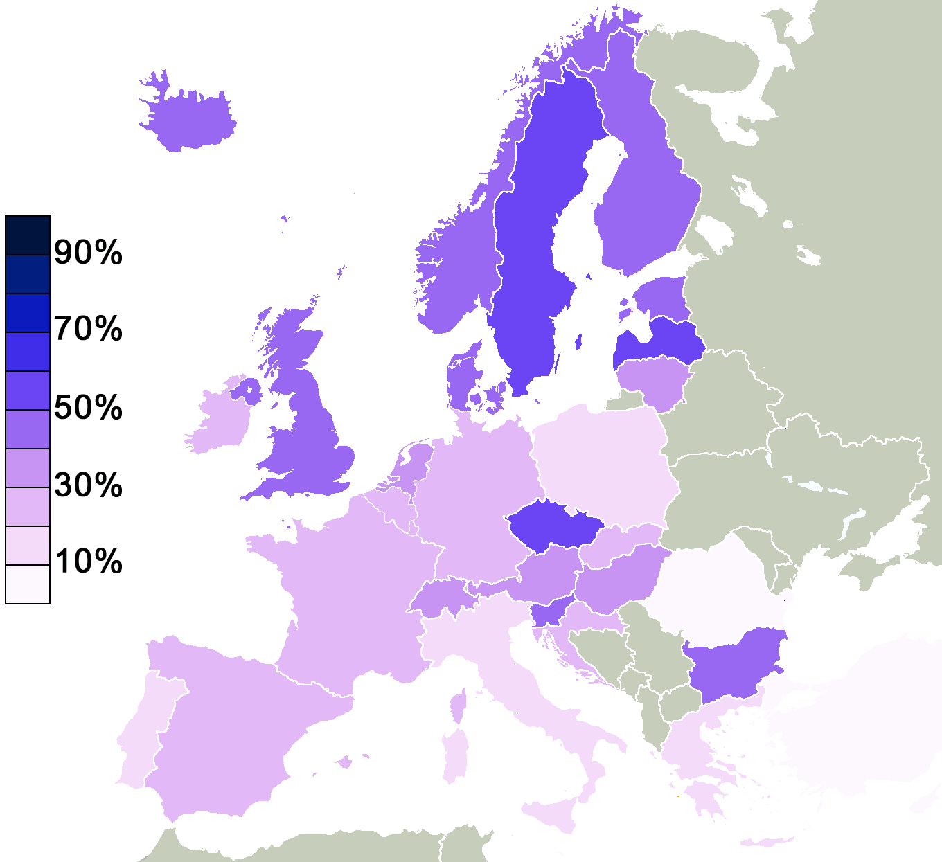 Eurobarometer Poll 2005 Percentage of those who agreed to the statement that "there is some sort of spirit of life force".